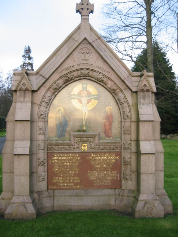 Memorial for Hugh and Richard Ainscough of H&R, Parbold churchyard. Taken May 2007, by Barbara Ainscough. To be included on the Ainscough page - Lancashire/ notable Ainscough.